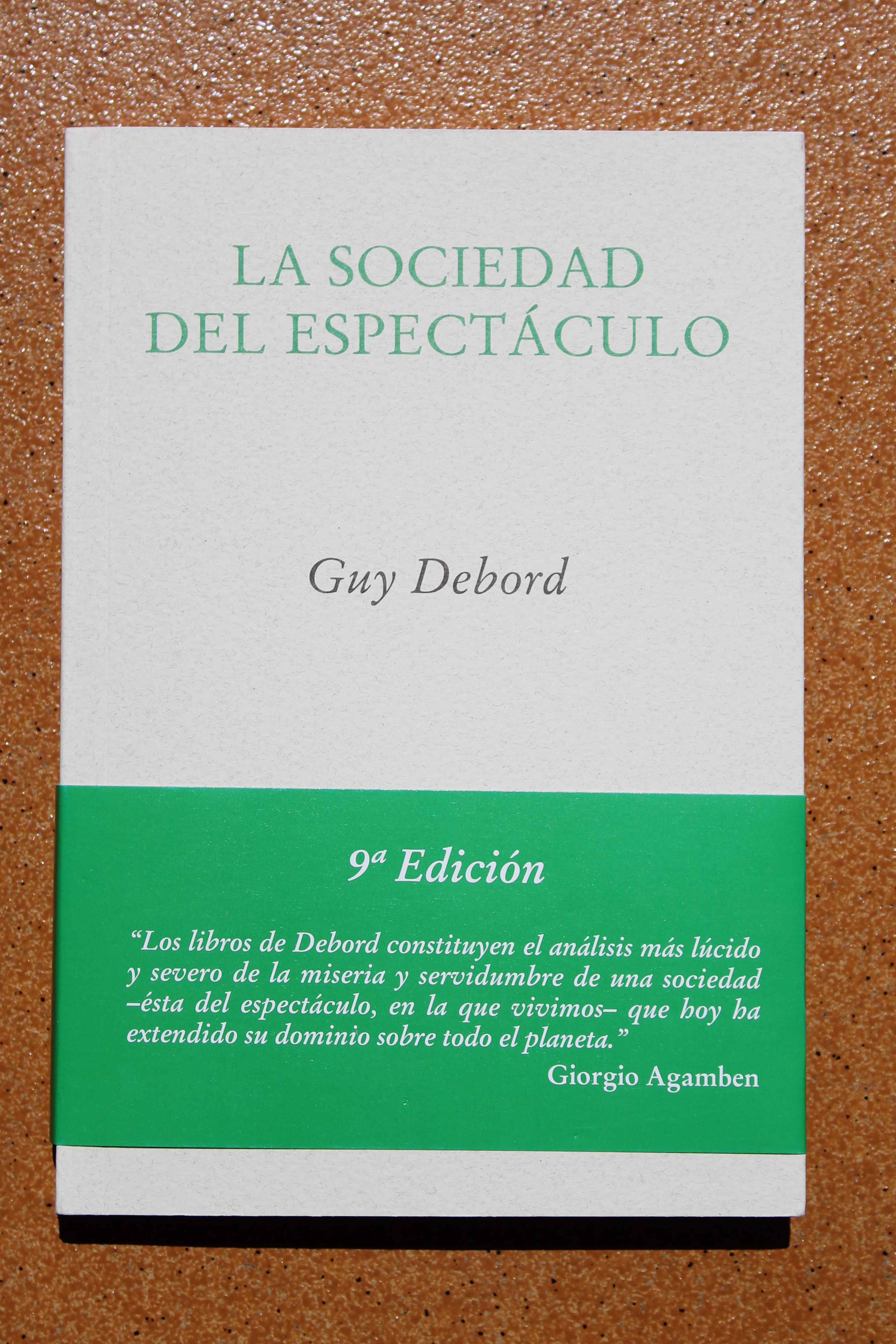 La Sociedad del espectáculo cover